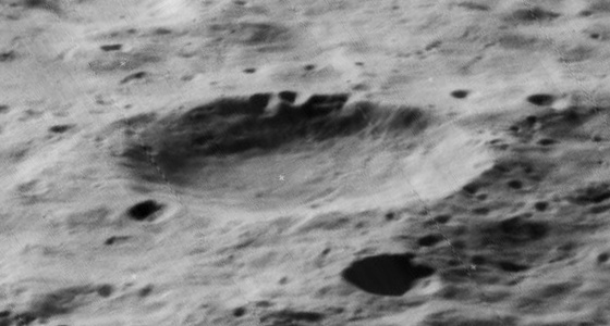 Oblique view of Chaucer, on the far side of the moon, facing west.